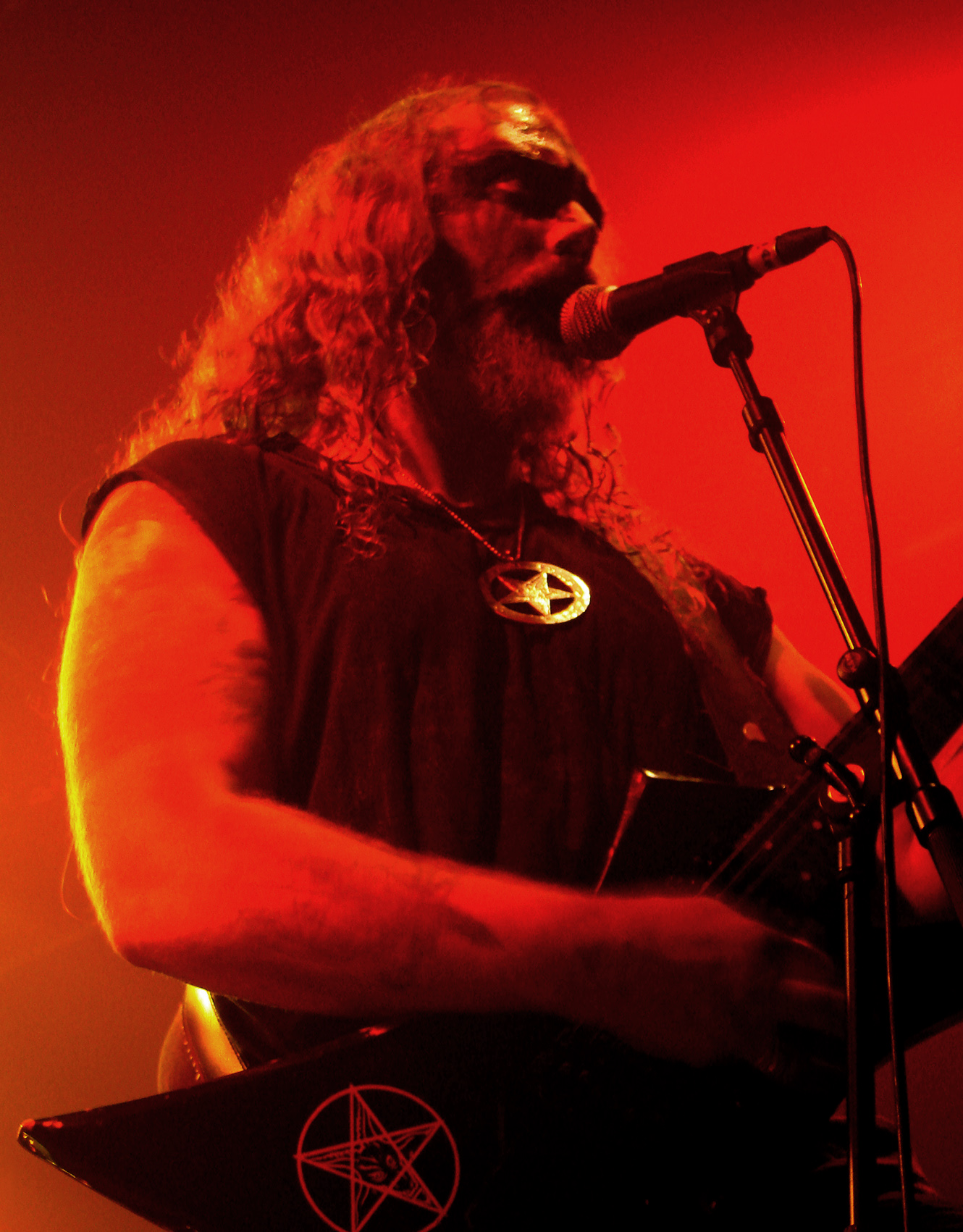 Enthroned during their concert in La Locomotive, Paris, 20/11/07. Nornagest: guitar and vocals.